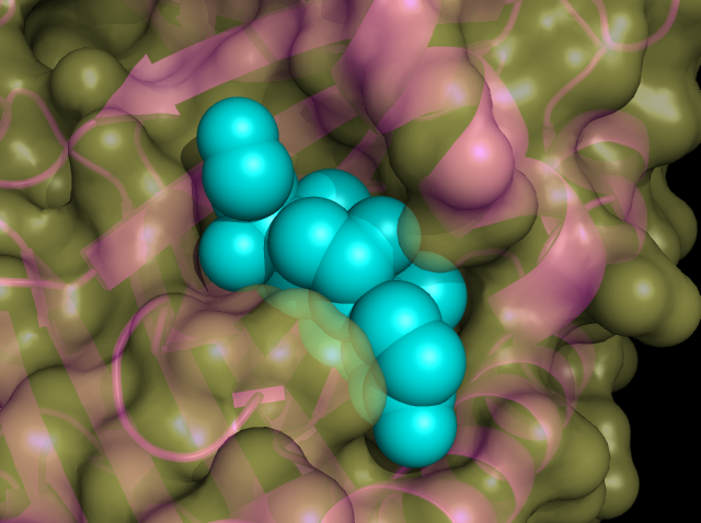 Cartoon of cortisol bound to CBG - made by Jcwhizz using PYMOL